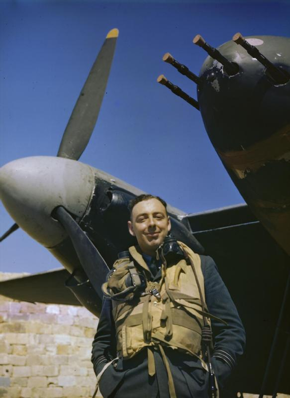 The Royal Air Force in Malta, June 1943 The Commander of No 23 Squadron, Royal Air Force, Wing Commander John B Selby, DSO, DFC, framed against the nose and engine of his De Havilland Mosquito II aircraft `P-Peter'. The four 20mm cannon are corked to prevent dirt damaging them. Comment : No. 23 Squadron flew Mosquito NF II (Special)s on night intruder operations from Malta over Italy. Correction : we see corks in the muzzles of four .303-inch Browning machine guns.